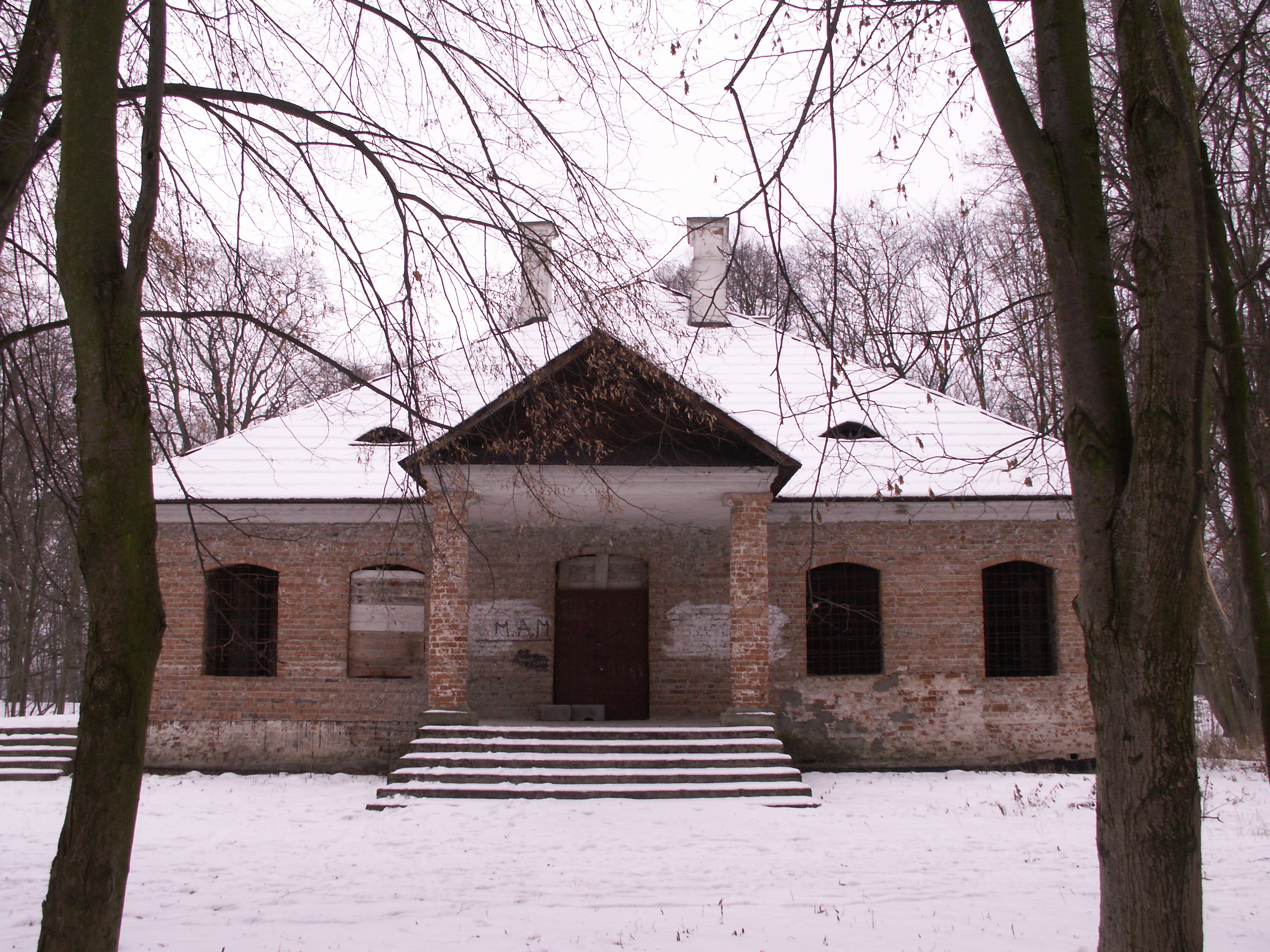 Manor in Bieliny, Poland